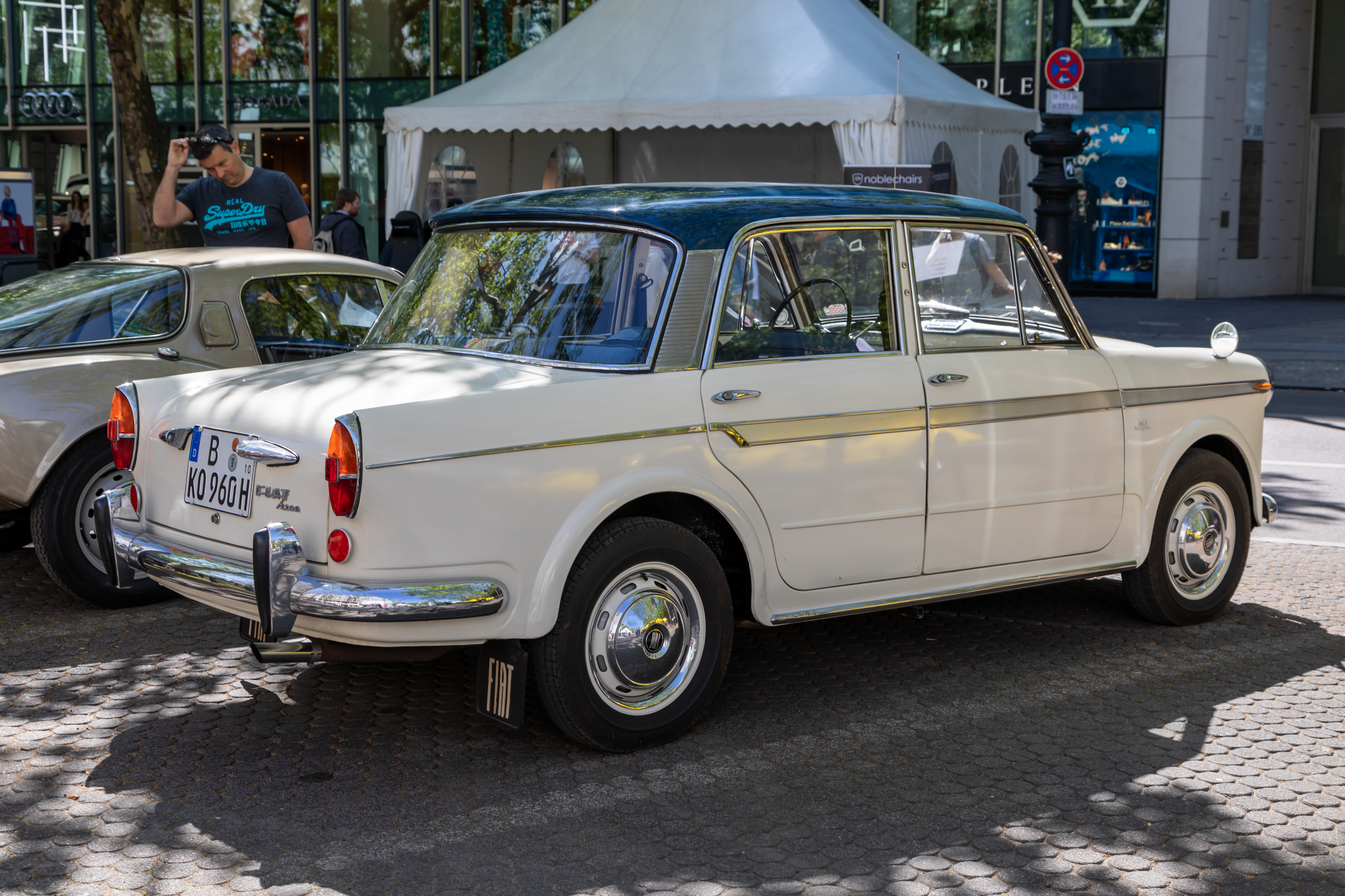 Classic Days Berlin 2019, Kurfürstendamm, Berlin-Charlottenburg